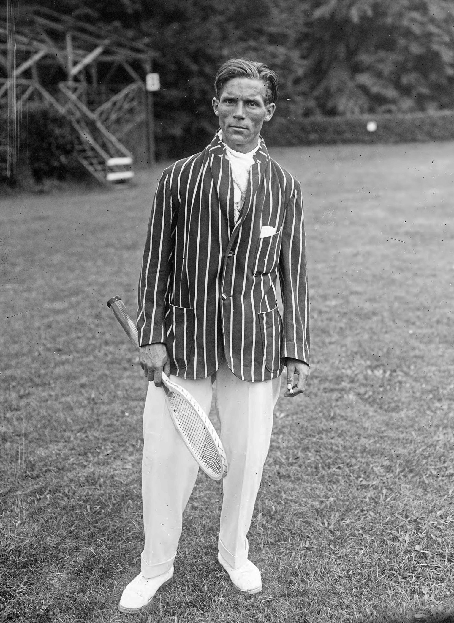 Czechoslovakian tennis player Karel Kozeluh